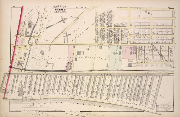 Detail of Ward 9 in Albany, New York; the Albany Lumber District